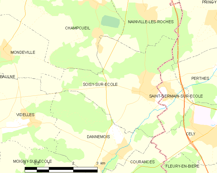 Map of French municipality Soisy-sur-École